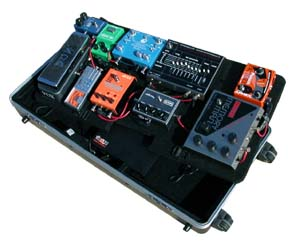 I release this image for general use in public domain.